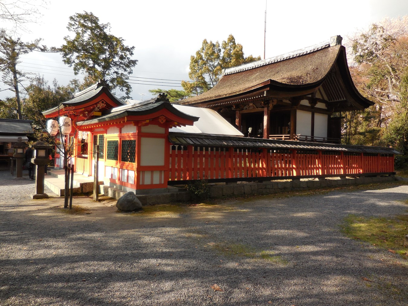 Uji Shrine (Uji / Kyoto)